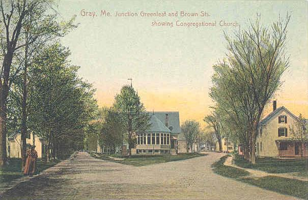 Junction of Greenleaf (now Yarmouth Road) and Brown streets, showing the Congregational Church, Gray, Maine. The church was built in 1900.